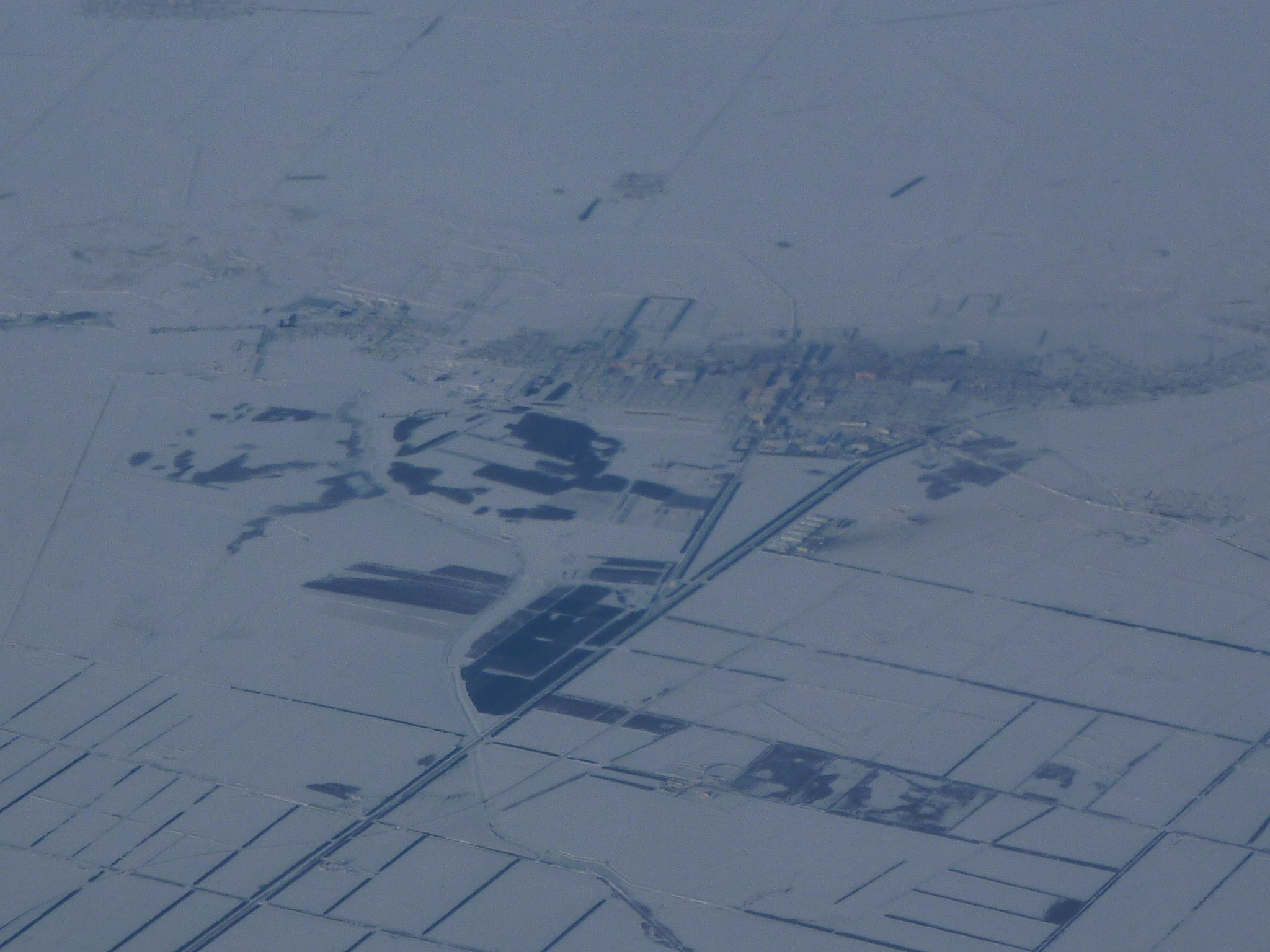 An aerial view of a section of Fuyuan County, Heilongjiang, west of the Ussuri (Wusuli) River, looking NW. The photo is centered on Hancongguo Town. Photo taken from an AA aircraft on a non-stop ORD-PVG flight.